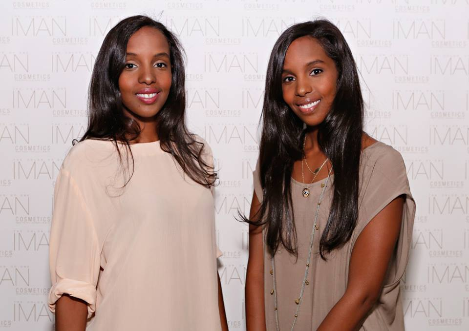 Somali fashion designers Ayaan and Idyl Mohallim, founders of the Mataano line (May 2013).